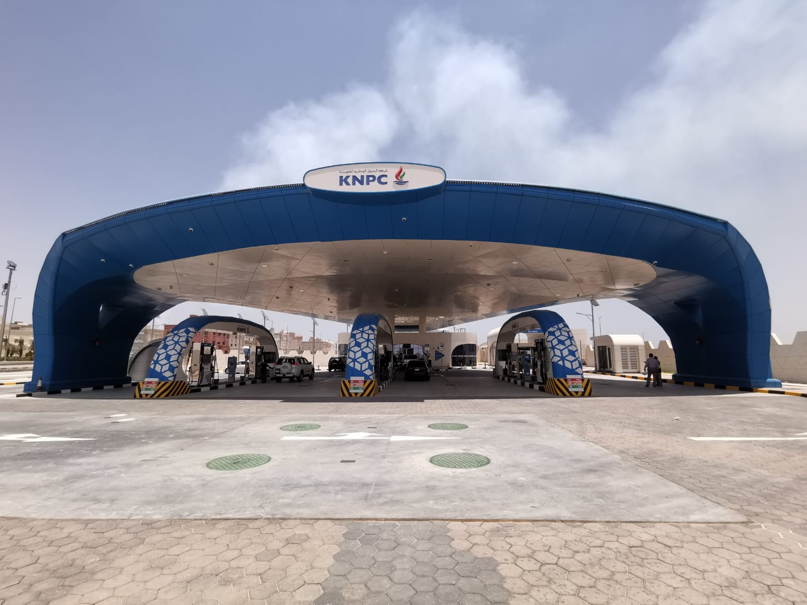 المحطات الجديدة للشركة التم تم افتتاحها